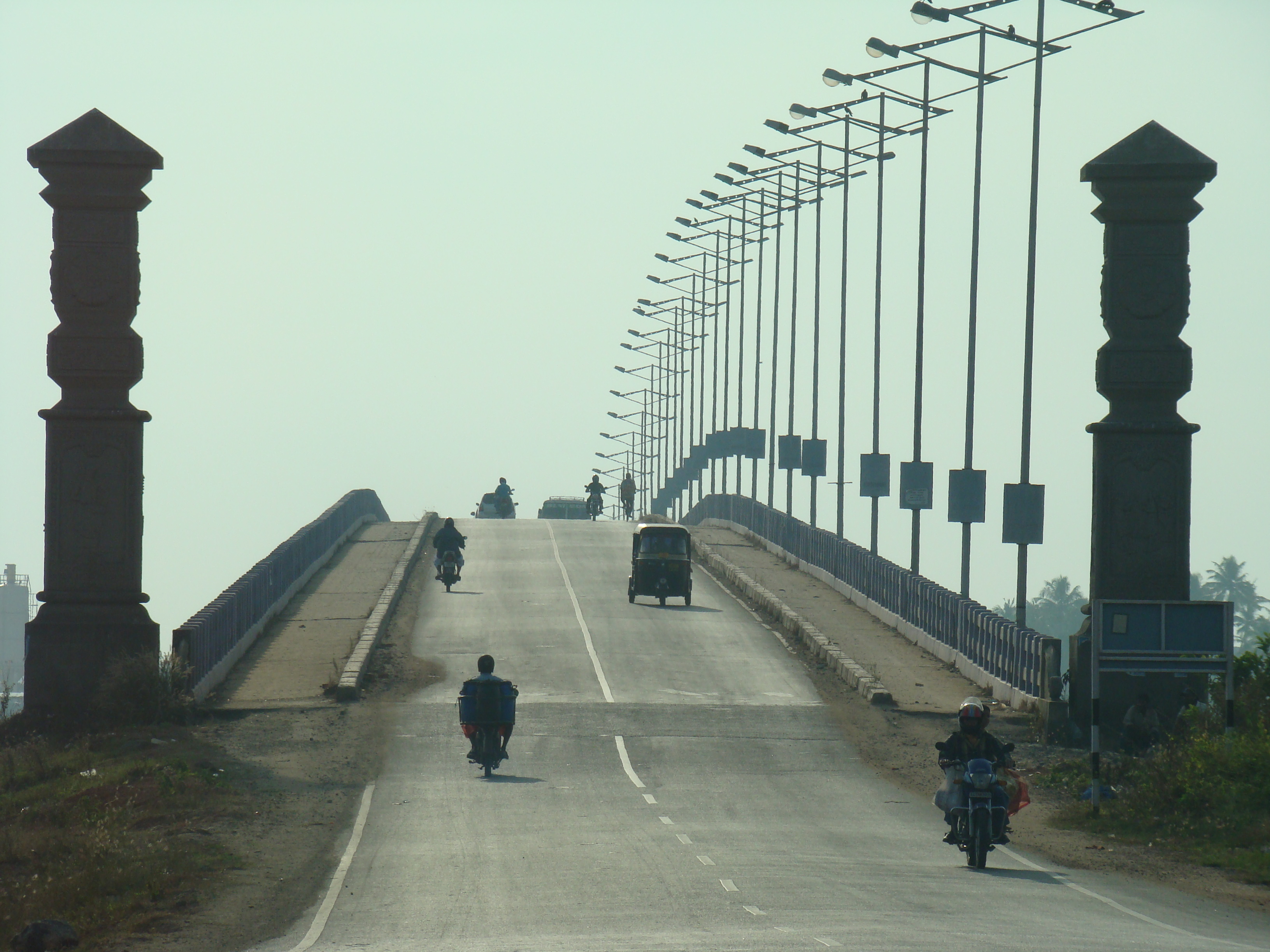 Ernakulam to Vypin, Kerala.